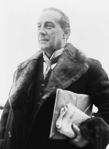 British Prime Minister Stanley Baldwin (1867-1947)